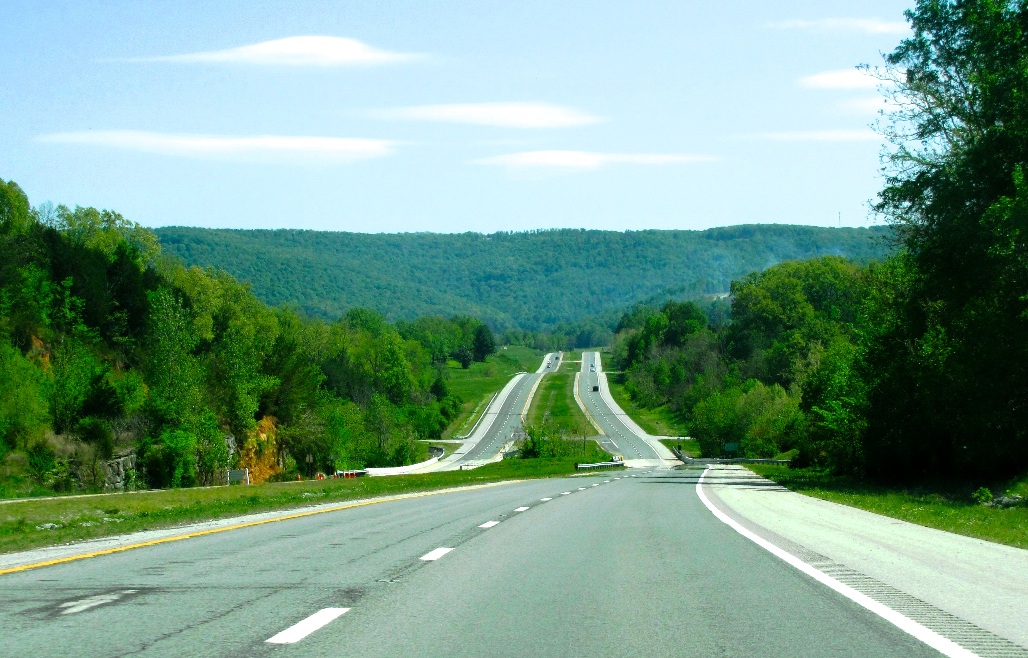 Tennessee State Route 111 approaching the Cumberland Plateau, near Spencer, Tennessee, United States